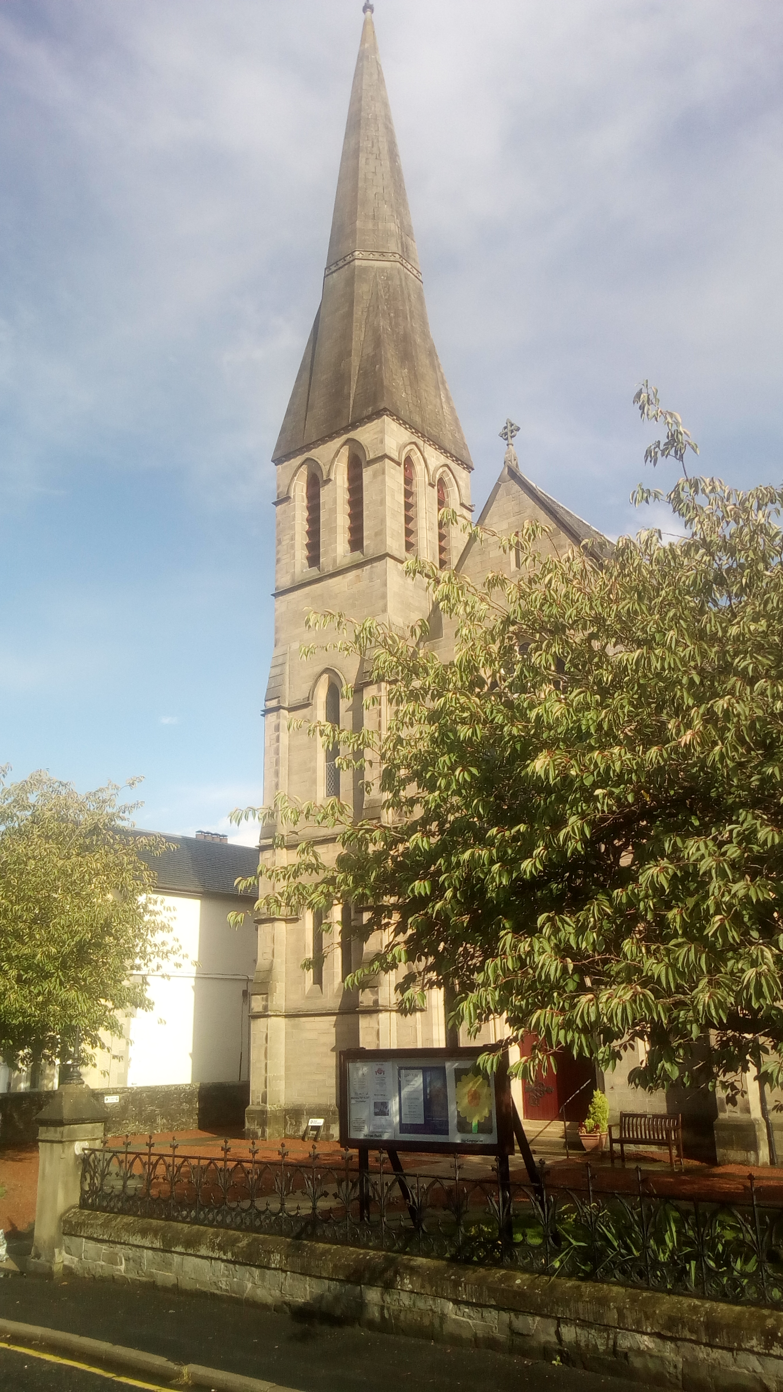 Selkirk, High Street, Parish Church Wikidata has entry Q17847168 with data related to this item.